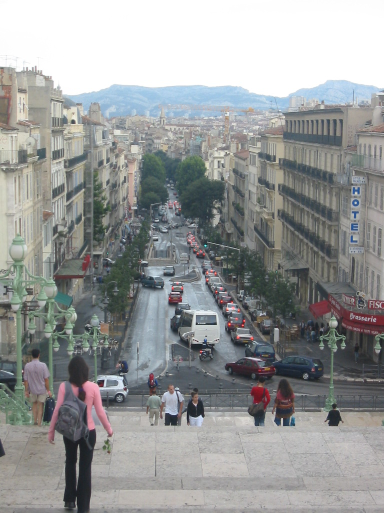 Le Grand Escalier and the boulevard d'Athènes in Marseille, France, seen from the gare Saint-Charles.